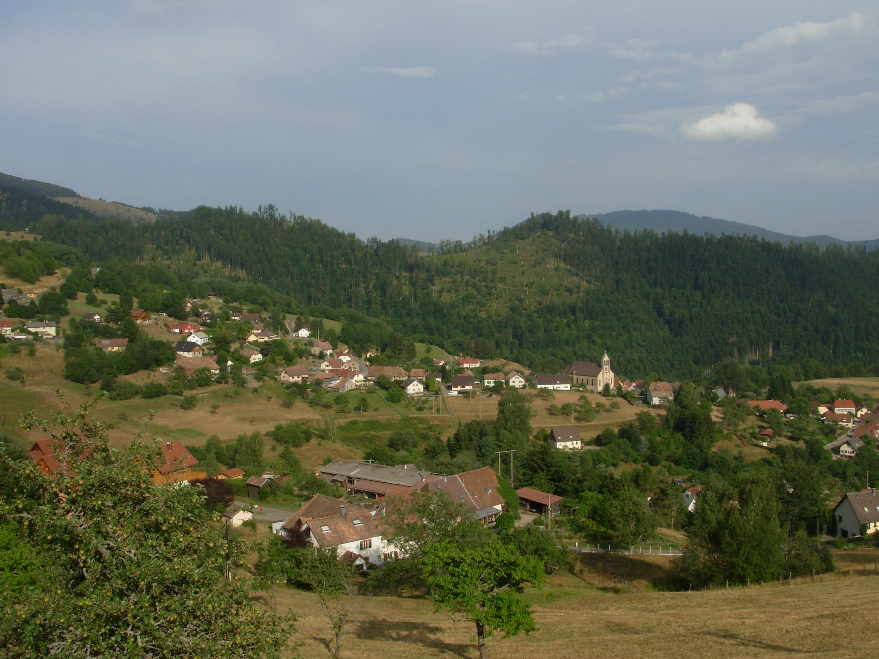 Geishouse, Alsace, France. own photography taken by july 2006